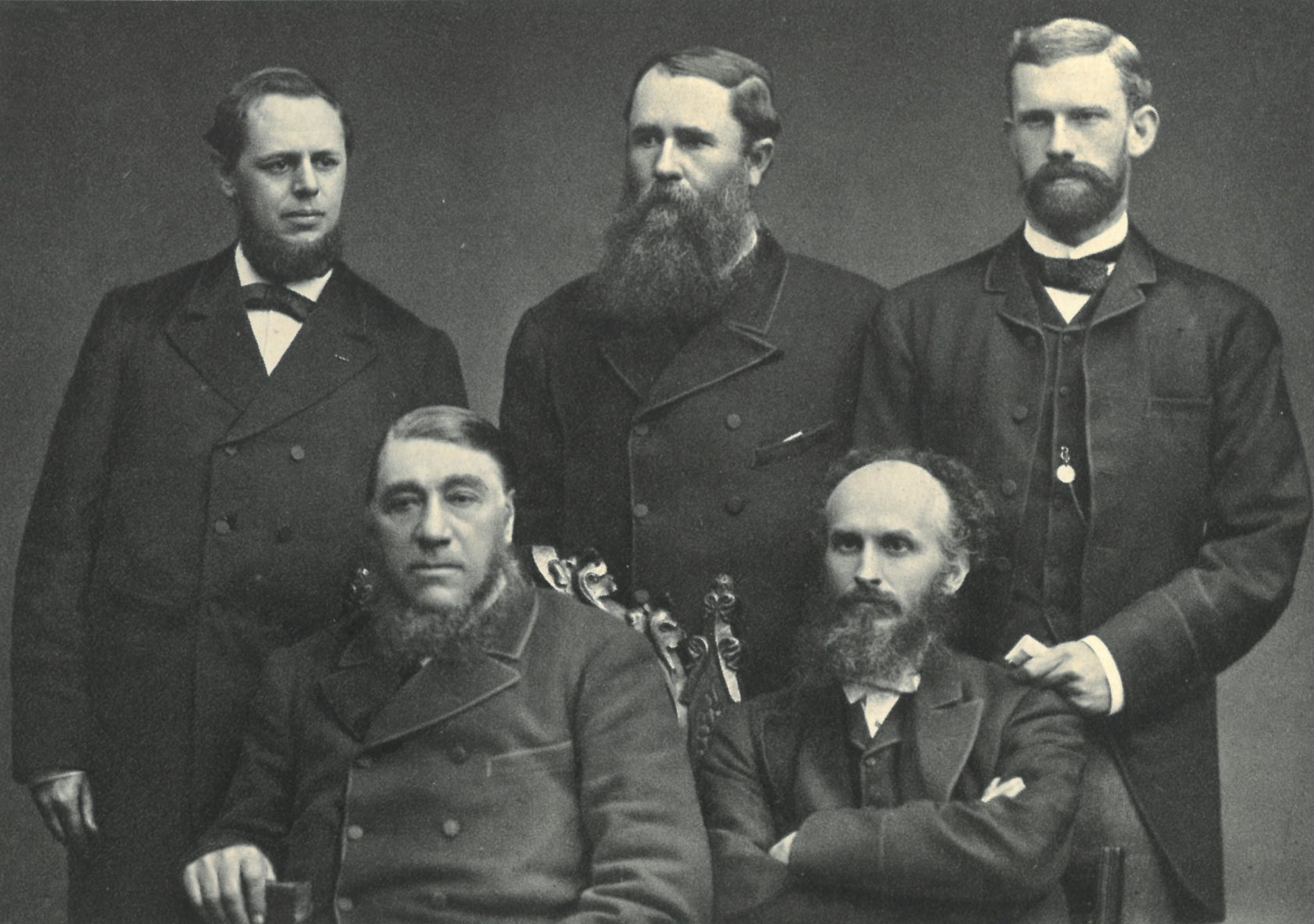 Delegates from the South African Republic to the London Convention (1884). The delegates depicted are Gerard Jacob Theodoor Beelaerts van Blokland - a Dutch legal advisor to the republic, General Nicolaas Smit, Ewald Auguste Esselen, President Paul Kruger, and Rev. Stephanus Jacobus du Toit.